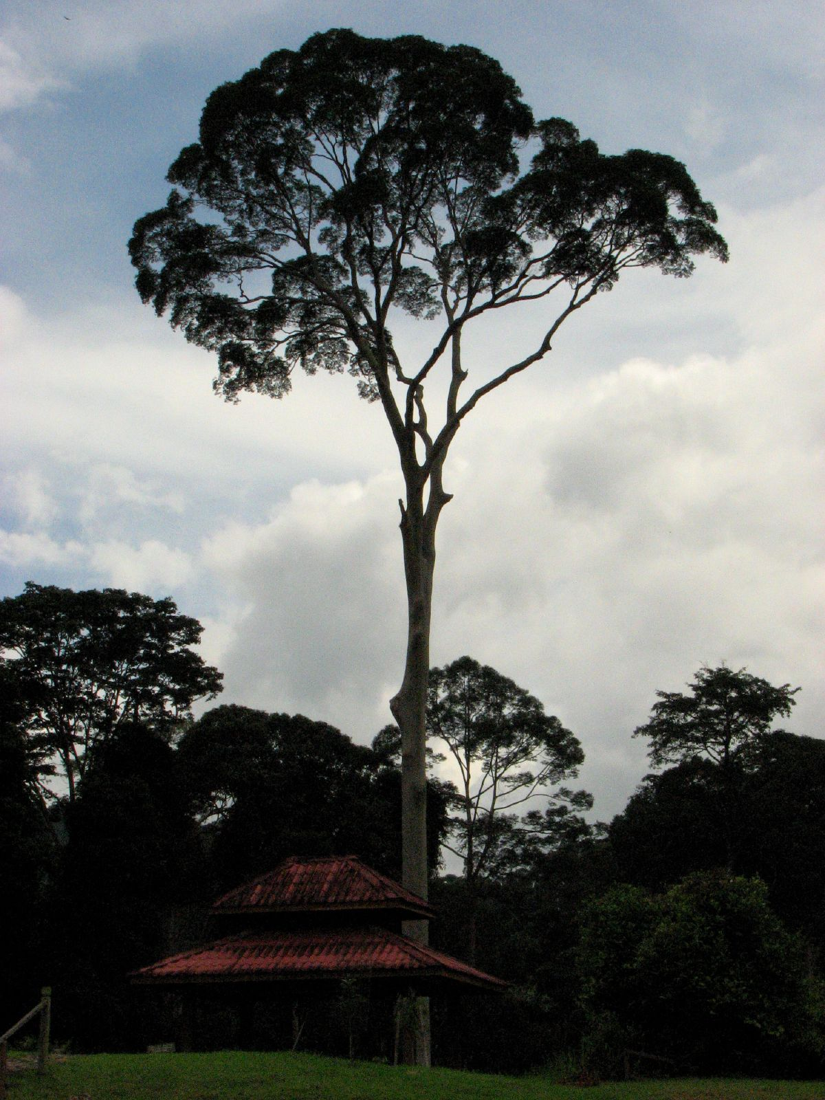 A Dipterocarpus tree — in the Danum Valley Conservation Area on Borneo, Sabah, Malaysia. Many species of Dipterocarpus are endemic to Borneo.